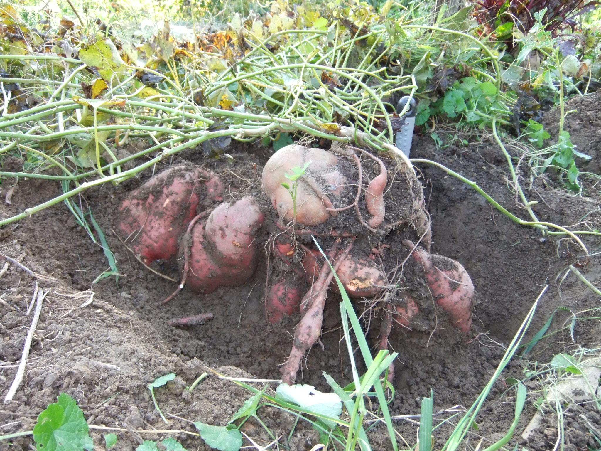 The partially exposed underground part of a sweet potato plant, during harvesting. Normally (i.e., before digging started) only the top half of the topmost (lighter-colored) tuber was seen above the soil surface.